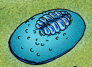 Reconstruction of the Ediacaran organism, Onega stepanovi, of what is now the White Sea of Russia, as a proarticulatan (C) Stanton F. Fink